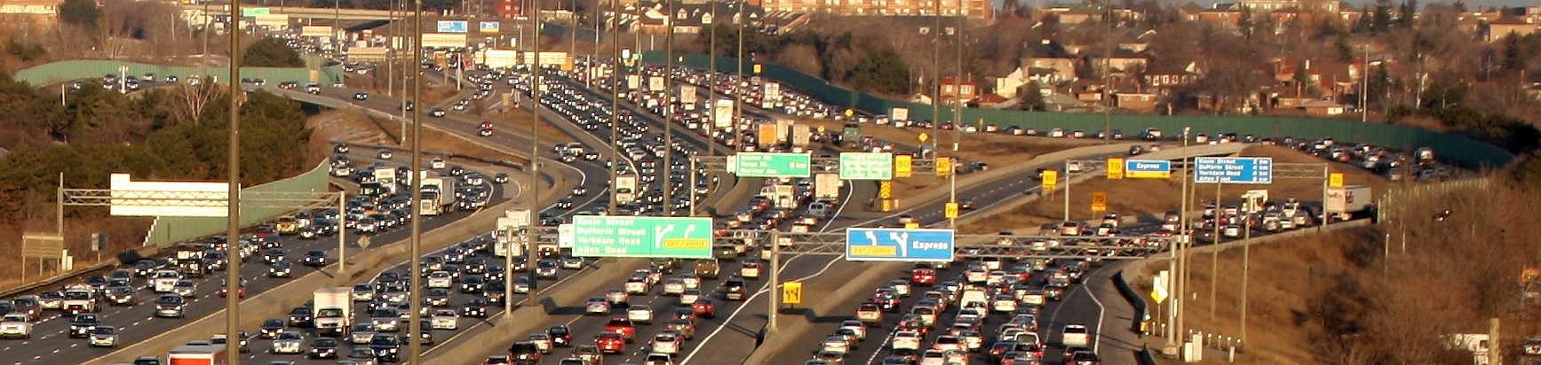 Cropped image showing the Basketweave